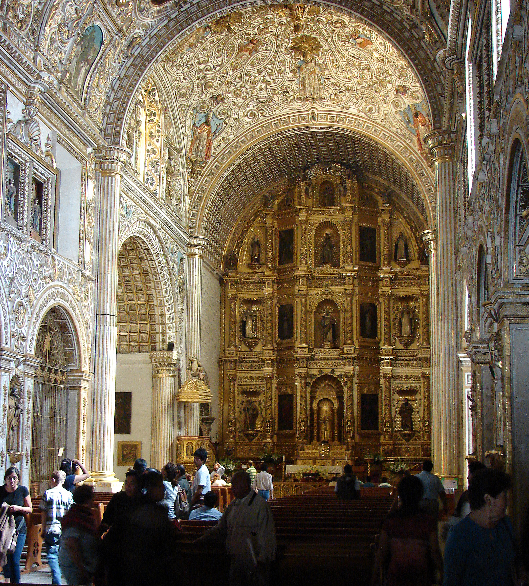 Inside of Temple of Santo Domingo de Guzmán, Oaxaca city, Oaxaca, Mexico